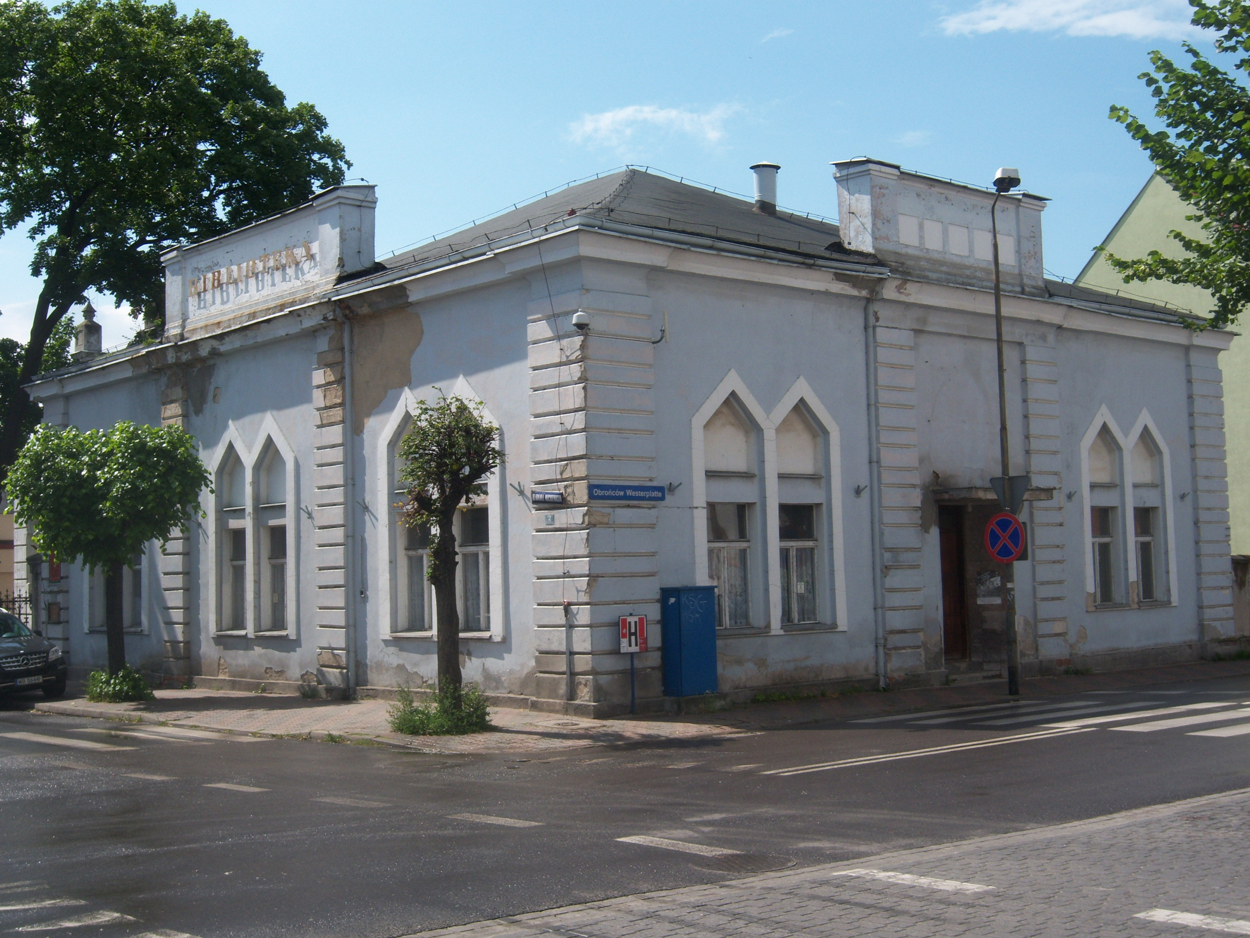 Little synagogue at Mickiewicz's 4 Street of the 1883, now library